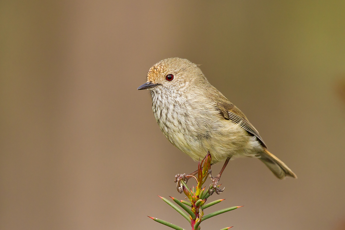 Brown Thornbill (Acanthiza pusilla)